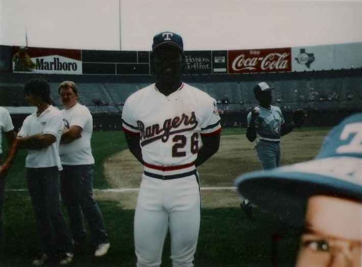 George Wright at Texas Rangers/Eckerd Drugs Camera Day at Arlington Stadium, Arlington, Texas Sunday, April 28, 1985.